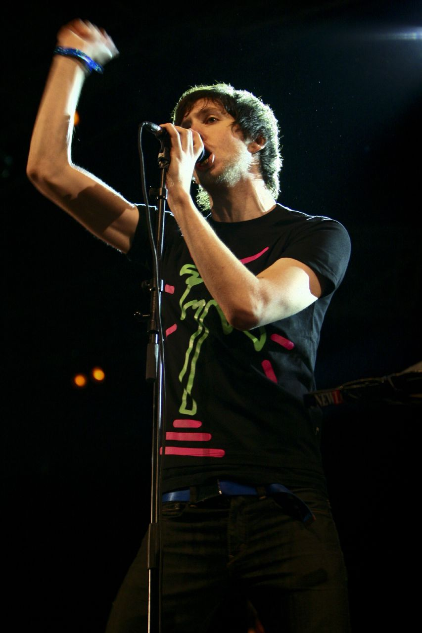 Calvin Harris at the Eurockéennes 2008